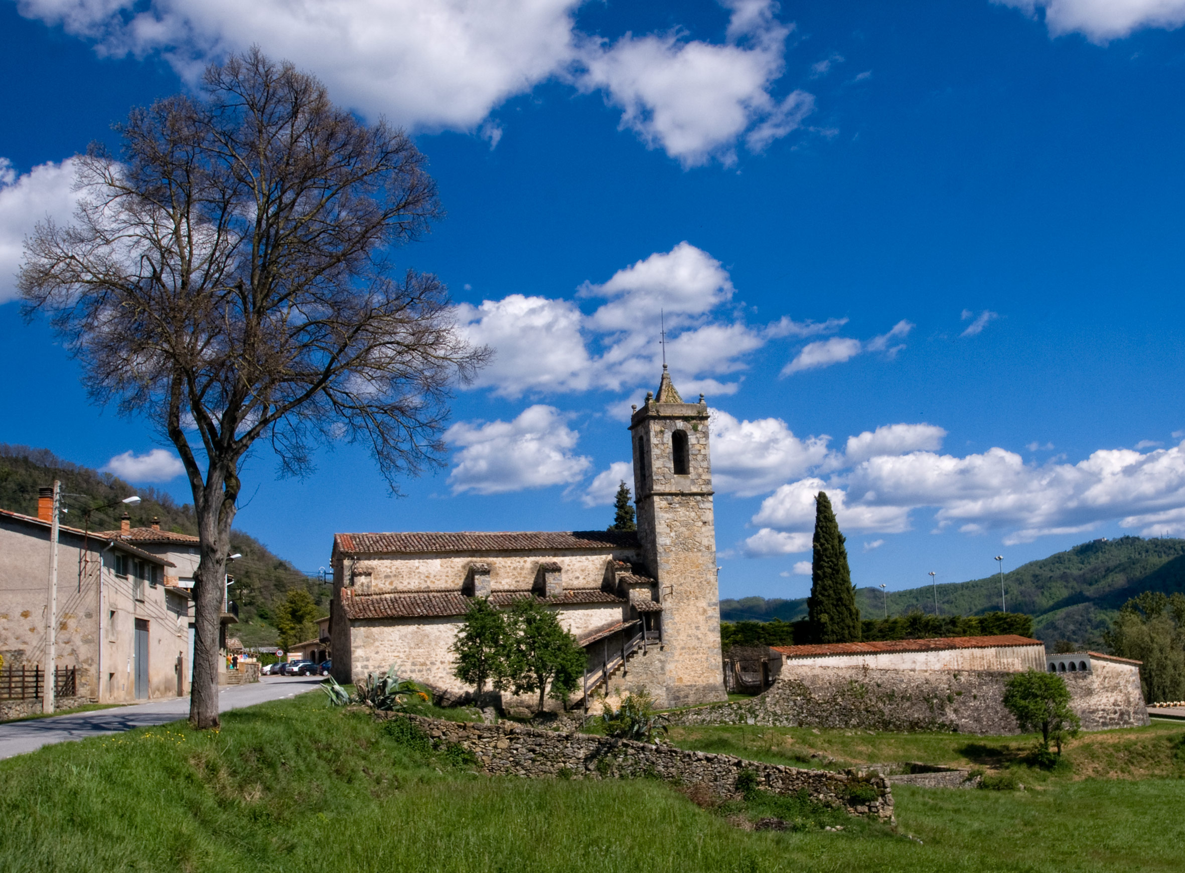 Santa Maria de Besora village (Catalonia, Spain)